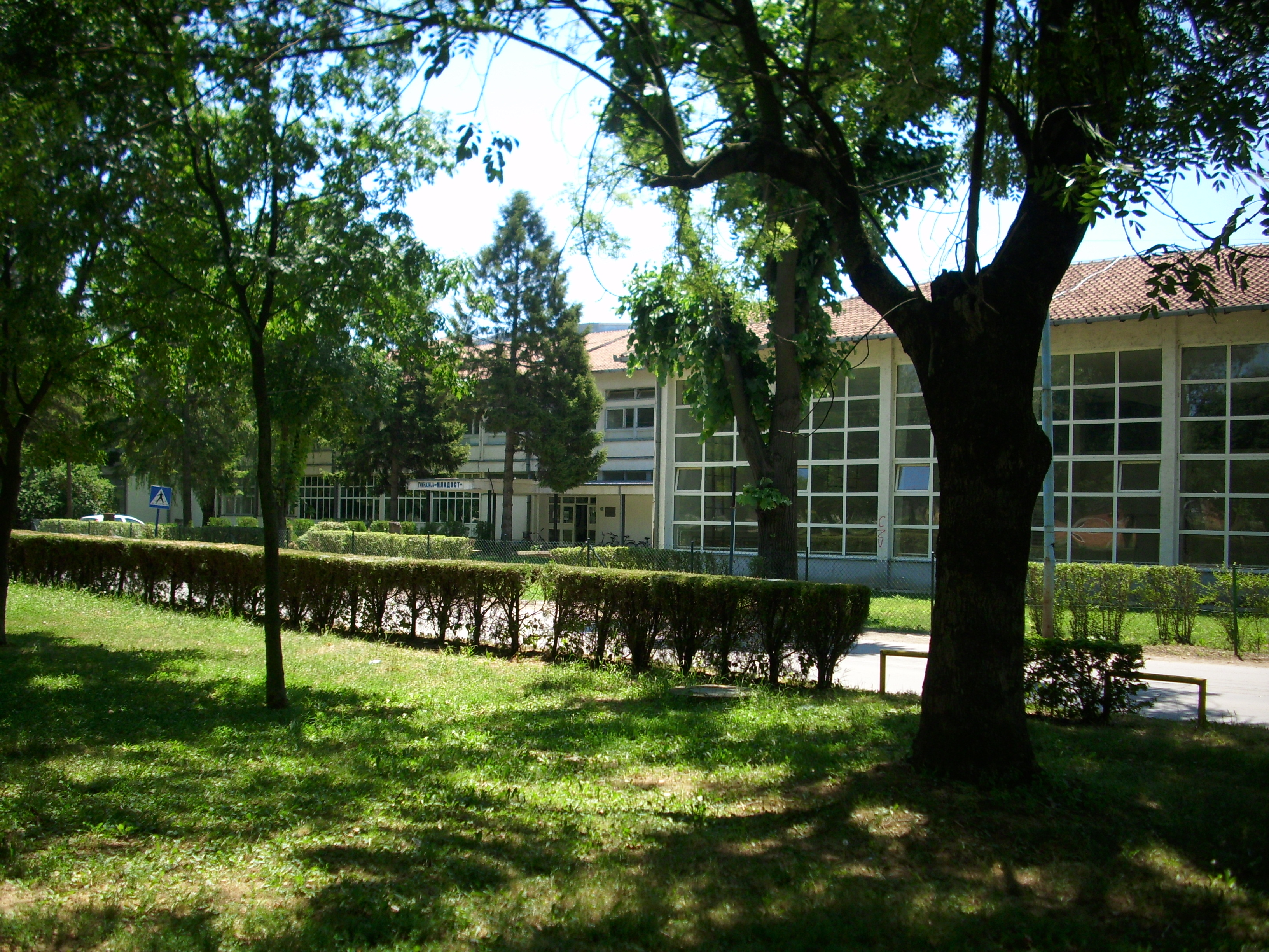 High school "Mladost" in Petrovac